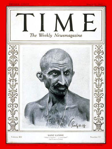 Mahatma Gandhi on Time magazine cover, 1930.